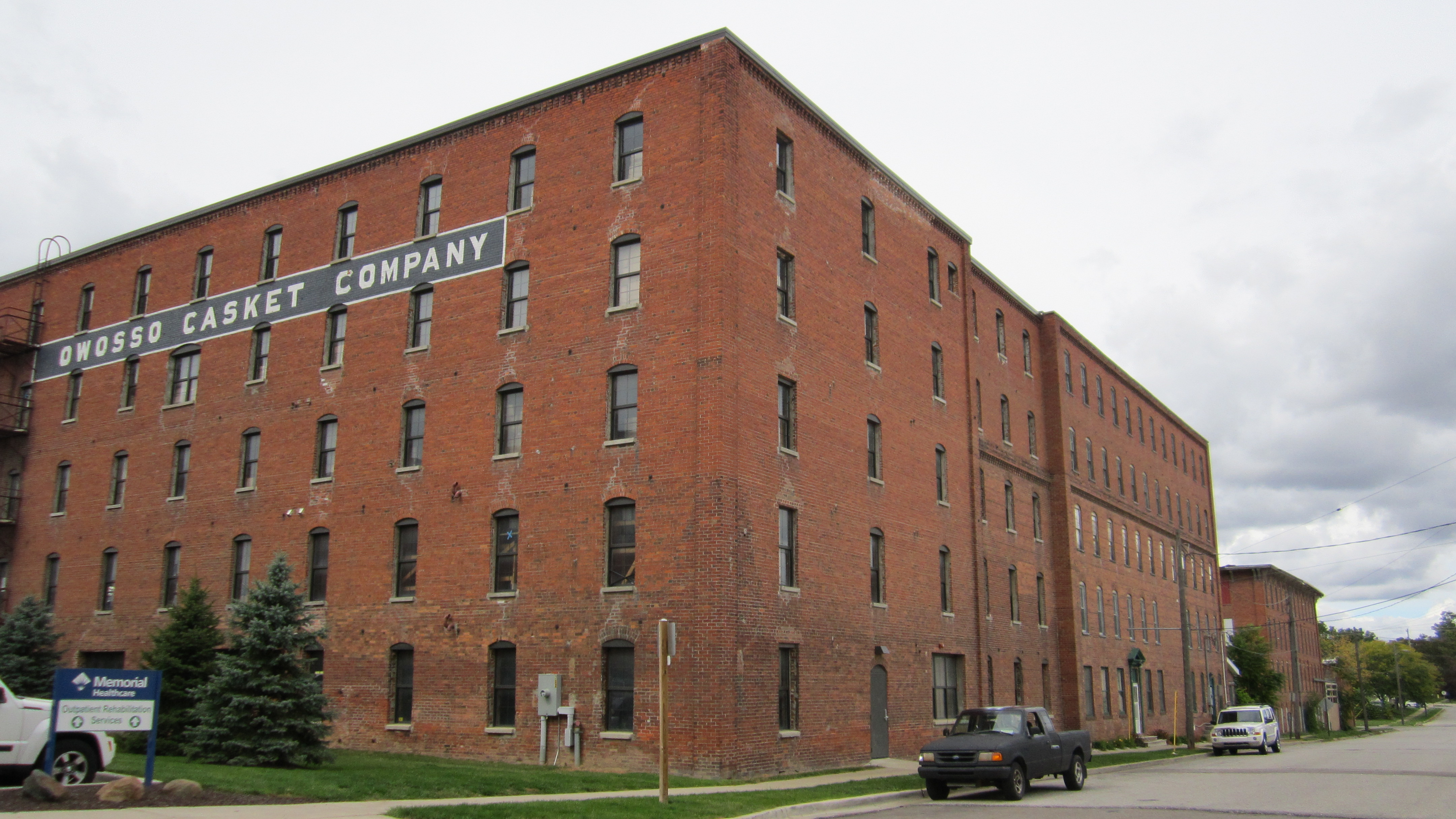 Lyman Woodard and Sons Building